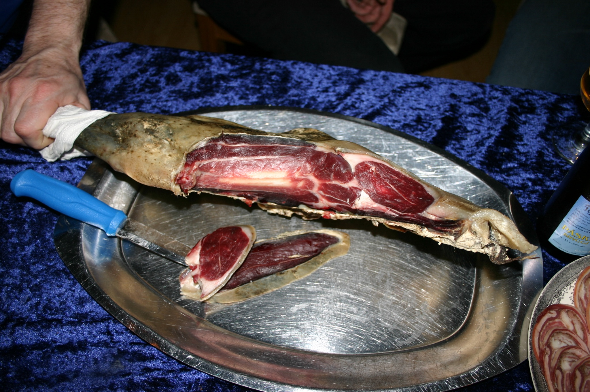 Skerpikjøt, dried mutton, typical food in the Faroe Islands.